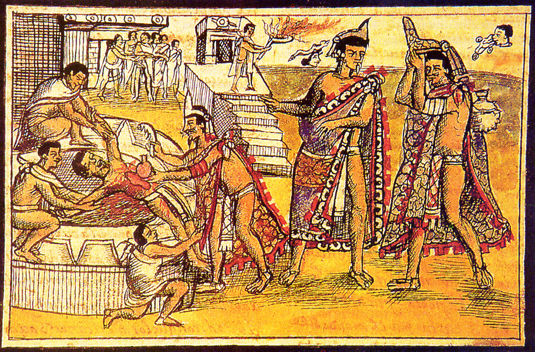 Aztec Human Sacrifice 08